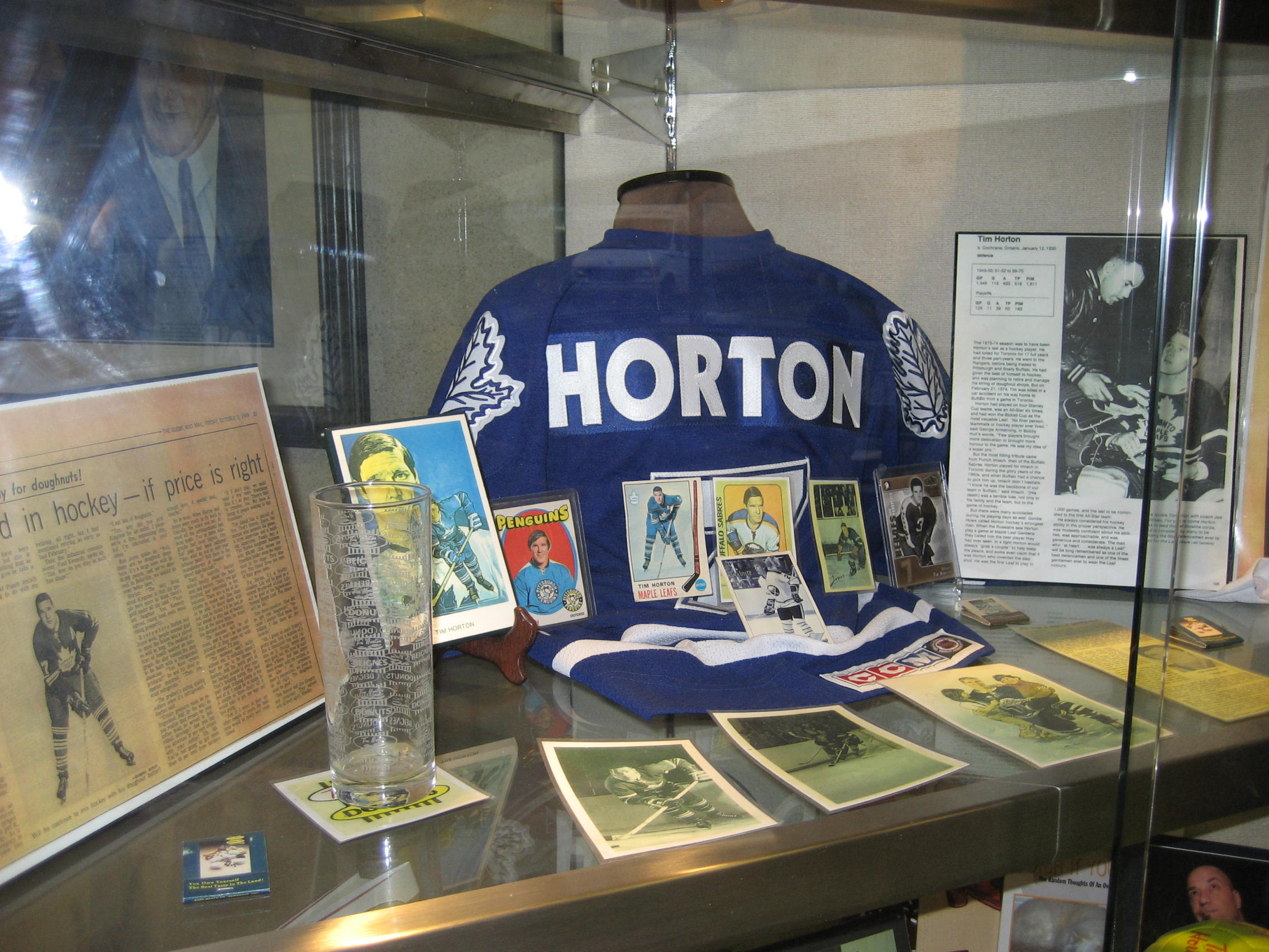 Display case, site of first Tim Horton's store, Ottawa Street North, Hamilton, Ontario